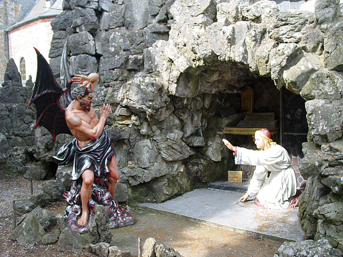 Statue of the devil in the Grotto of St Anthony of Padua in Crupet, Belgium. Taken by myself in 2005.